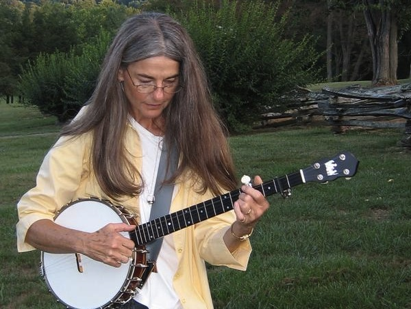 2013 NEA National Heritage Fellowship recipient Sheila Kay Adams at the Vance Birthplace in Buncombe County, North Carolina, USA.